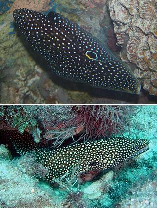 Picture of the Calloplesiops altivelis mimic + íts model Gymnothorax meleagris Other information Collage formed by the 2 Free source files